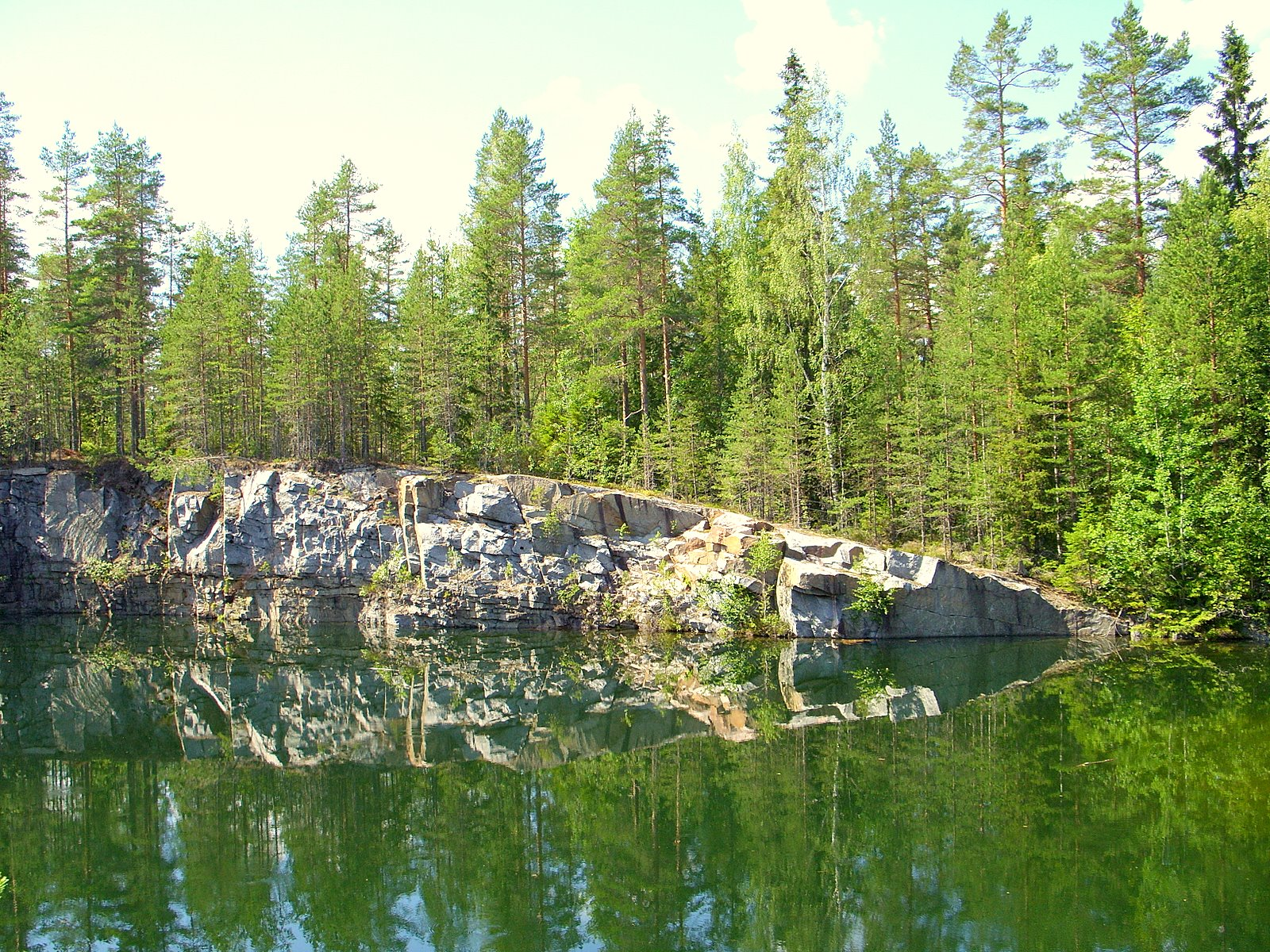 Murska quarry Murska is a granite quarry filled with water due to a fountain. Murska was used earlier as an official swimming place, but nowadays it does not have an official status. Still some local people use it for swimming. Some common fish species can be seen in Murska too. Photograph: Samsung S850, Olli-Jukka Paloneva, , N 62°23.018', E 022°47.504'